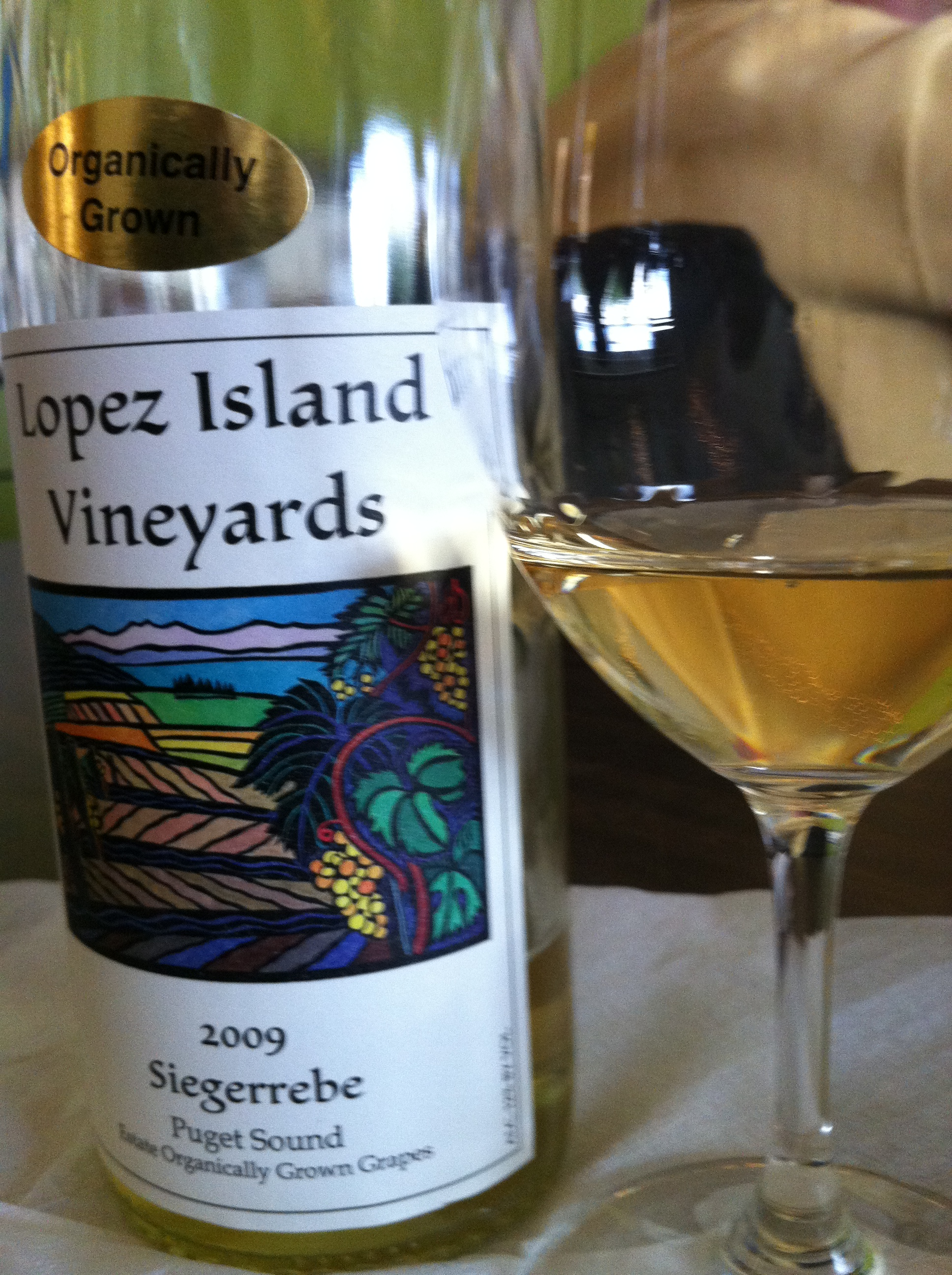 Washington wine made in the Puget Sound region from the Siegerrebe grape